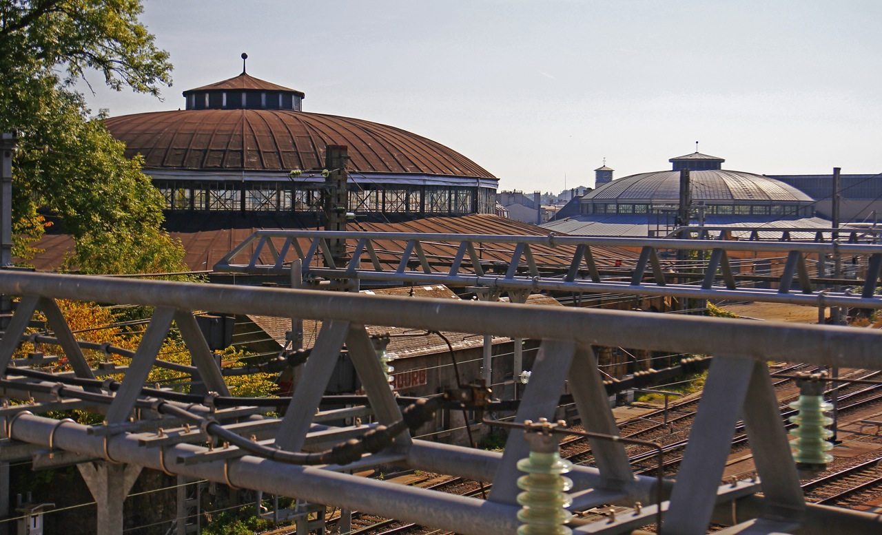 Roundhouses (fr:"Rotondes"), Luxembourg City, Trainstation